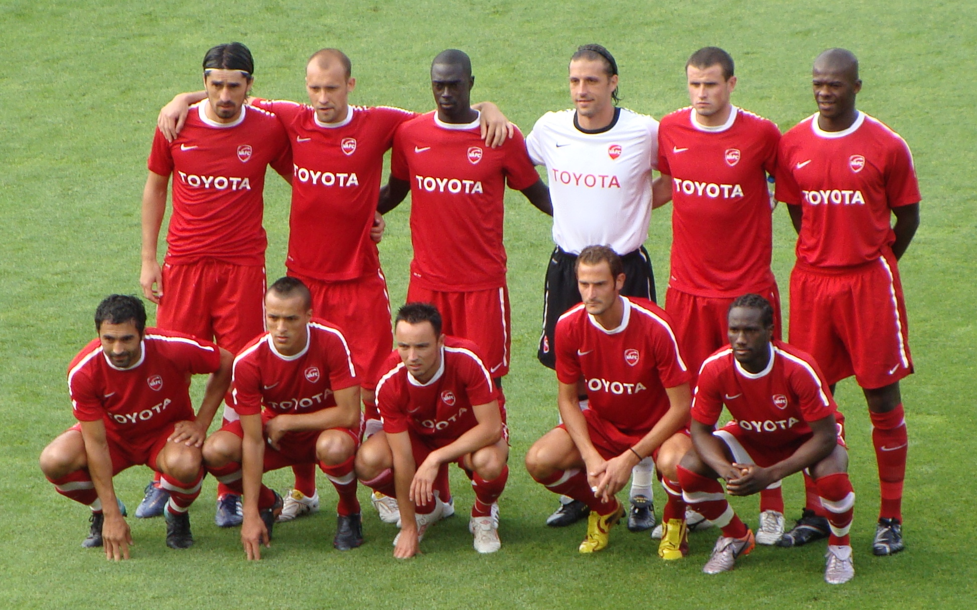 Valenciennes FC 2010-2011